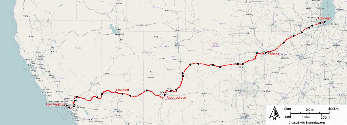 Amtrak Southwest Chief Legend: ━━━ Rail route